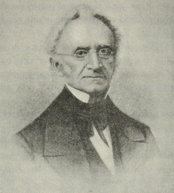 Henry Y. Cranston, Rhode Island Congressman